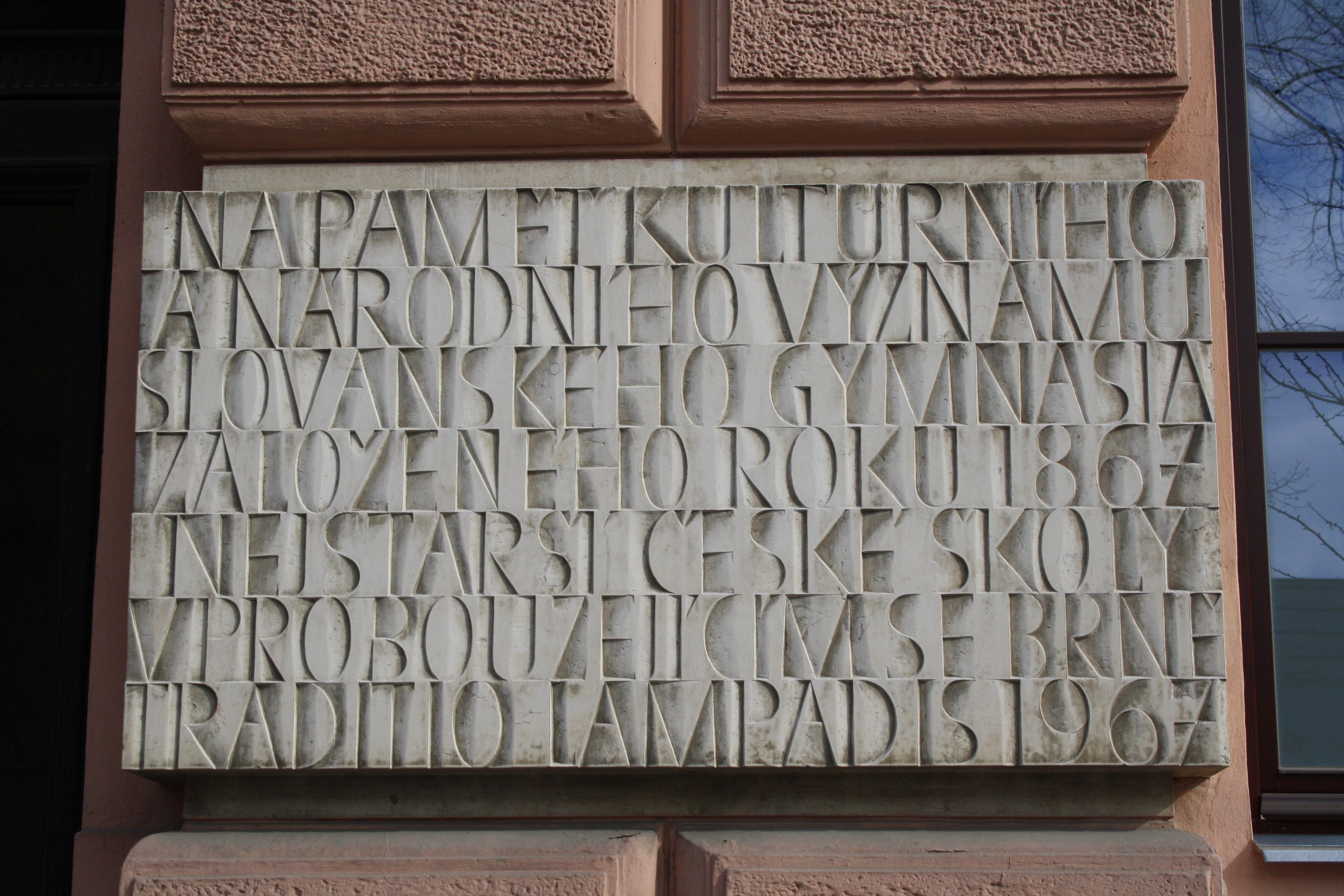 Slovanian gymnasium memory plaque at Tř. Kpt Jaroše Grammar school in Brno.